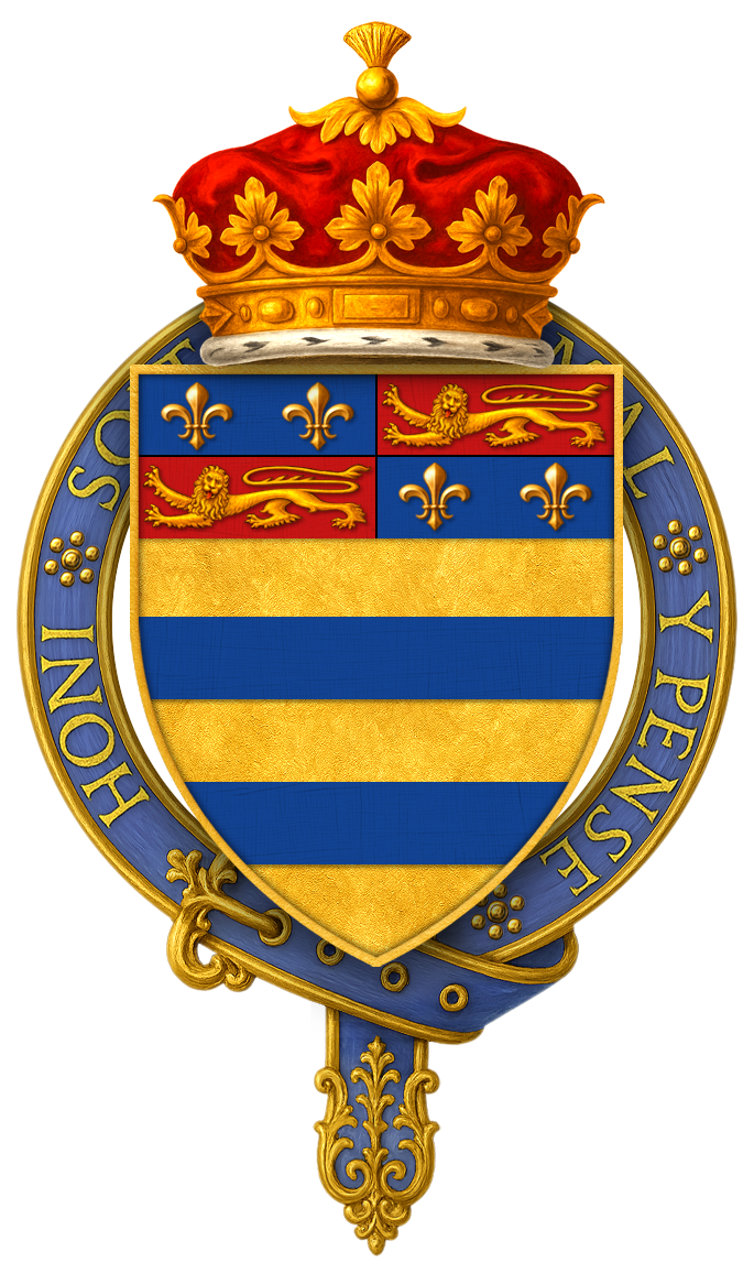 Garter encircled arms of Charles Manners, 6th Duke of Rutland, KG, as displayed on his Order of the Garter stall plate in St. George's Chapel.